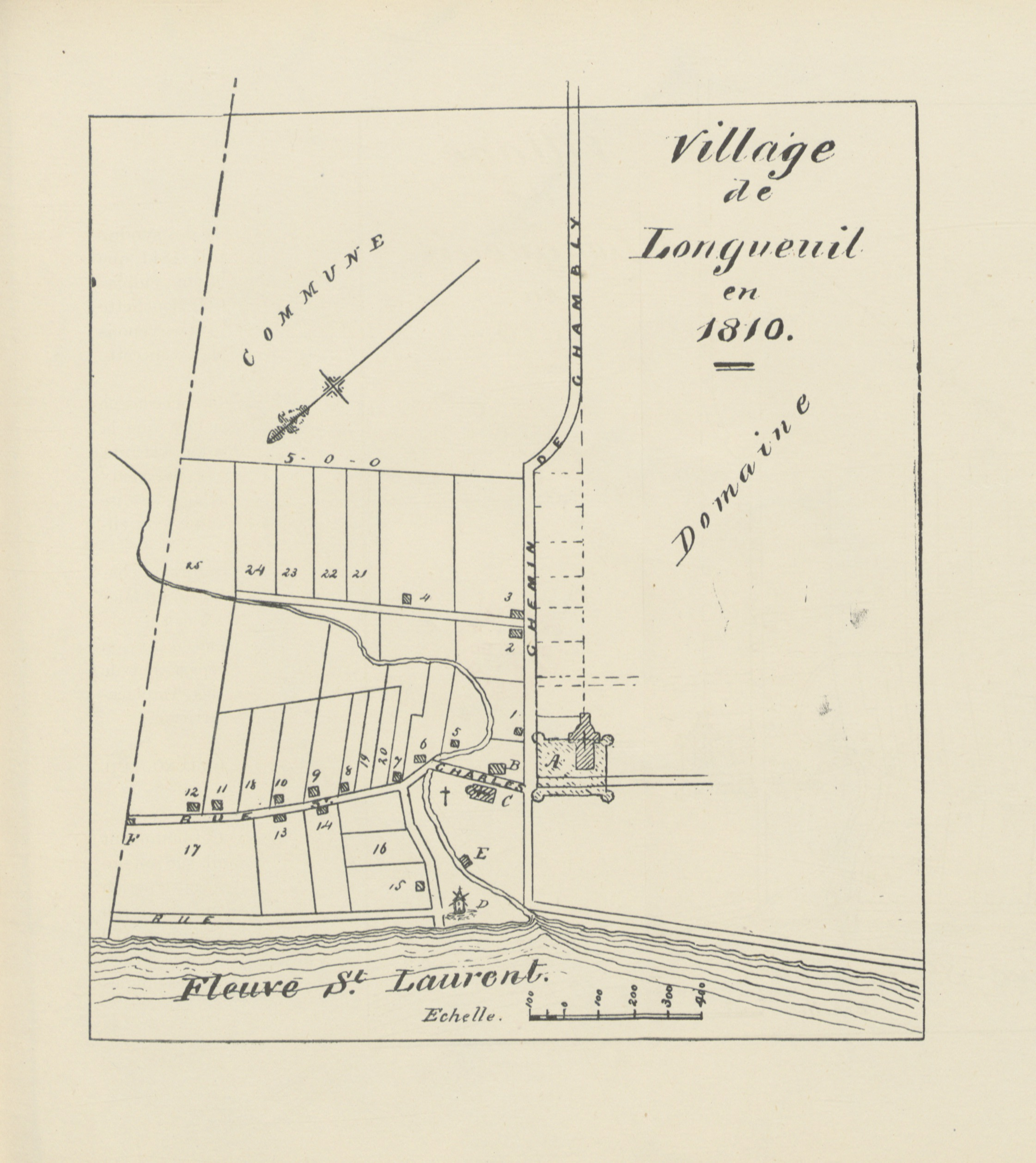 Image taken from: Title: "Histoire de Longueuil et de la famille de Longueuil. Avec gravures et plans" Author: JODOIN, Alex - and VINCENT (J. L.) Contributor: VINCENT, J. L. Shelfmark: "British Library HMNTS 10470.f.26." Page: 317 Place of Publishing: Montréal Date of Publishing: 1889 Issuance: monographic Identifier: 001878522 Note: The colours, contrast and appearance of these illustrations are unlikely to be true to life. They are derived from scanned images that have been enhanced for machine interpretation and have been altered from their originals. Following this or the link above will take you to the British Library's integrated catalogue. You will be able to download a PDF of the book this image is taken from, as well as view the pages up close with the 'itemViewer'. Click on the 'related items' to search for the electronic version of this work. Click here to see all the illustrations in this book and click here to browse other illustrations published in books in the same year. Please click on the tags shown on the right-hand side for other ways to browse the illustrations.